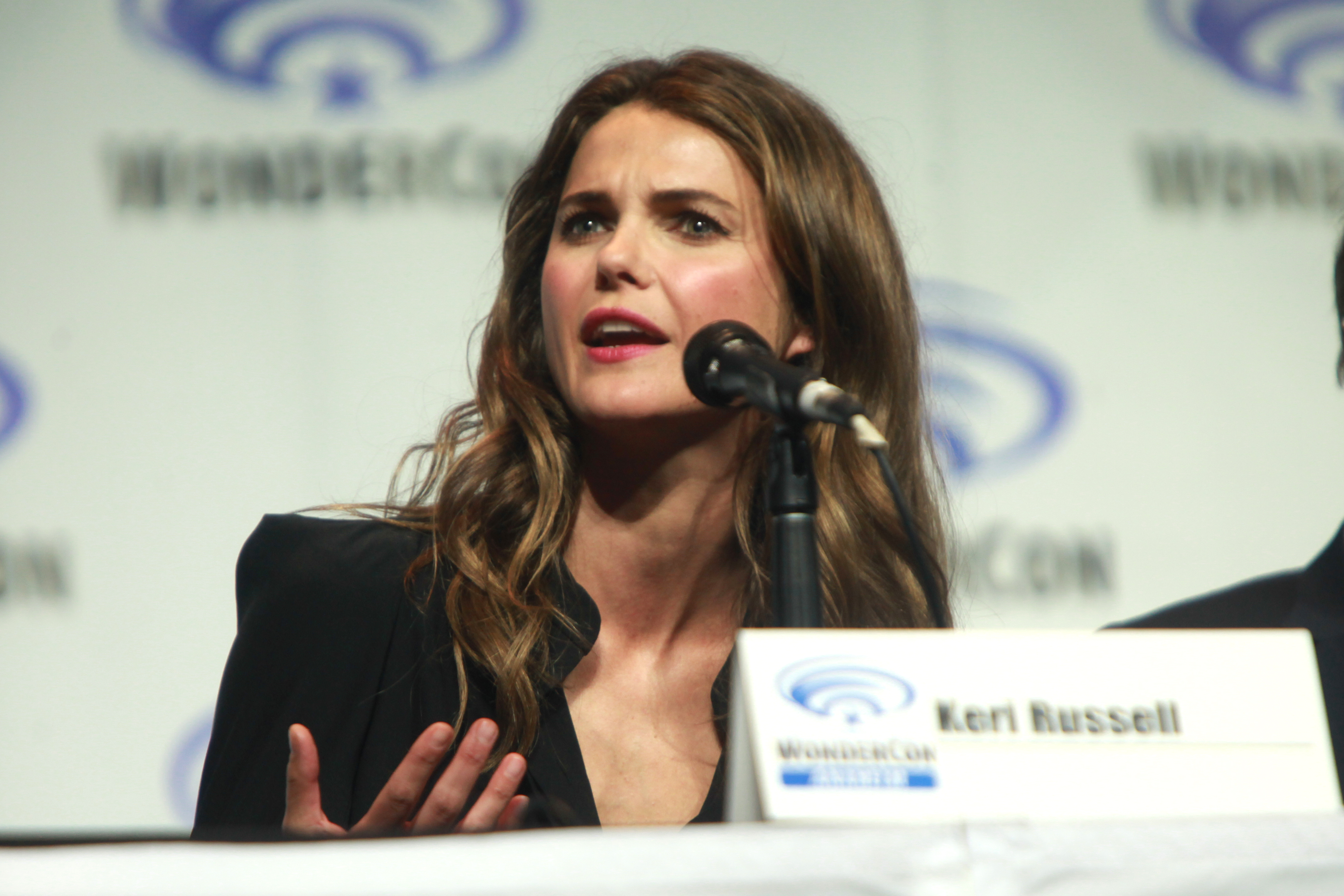 Keri Russell speaking at the 2014 WonderCon, for "Dawn of the Planet of the Apes", at the Anaheim Convention Center in Anaheim, California.